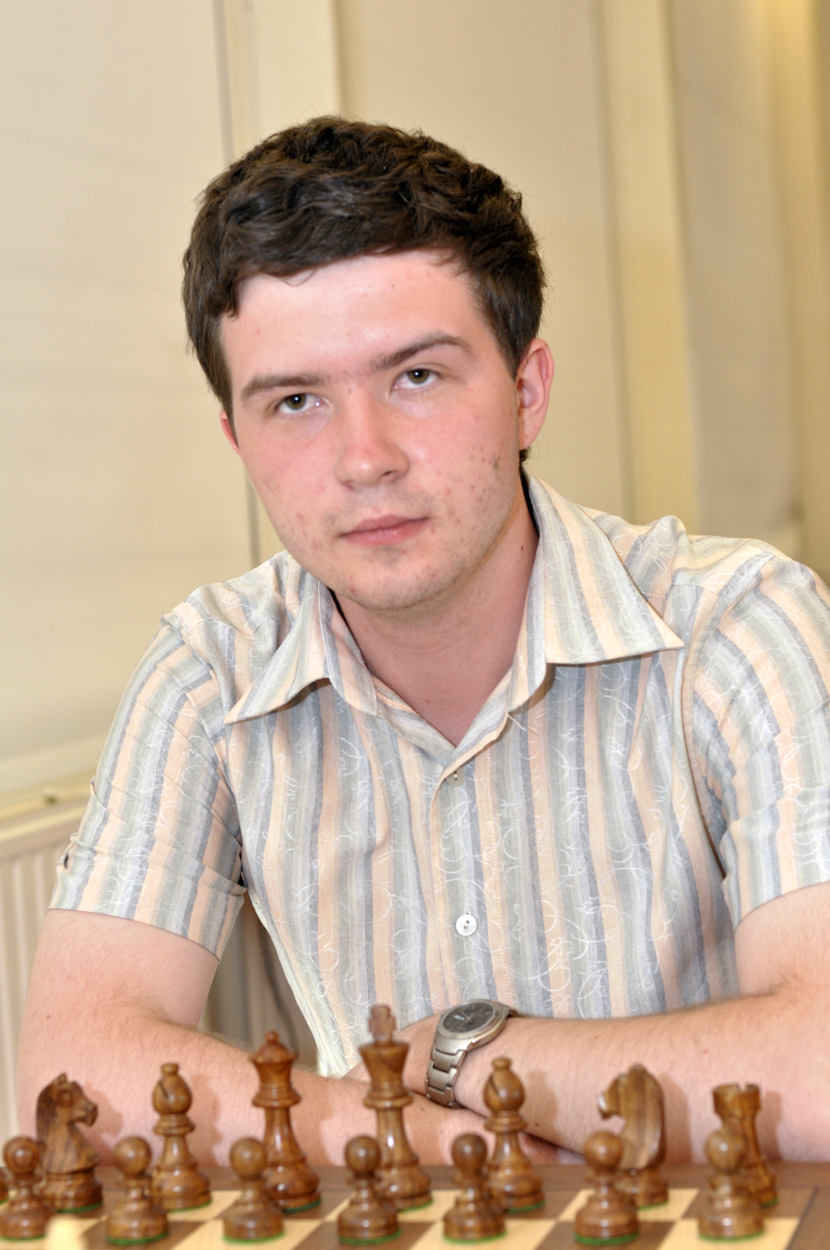 GM Ildar Khairullin, Vlissingen 2009.